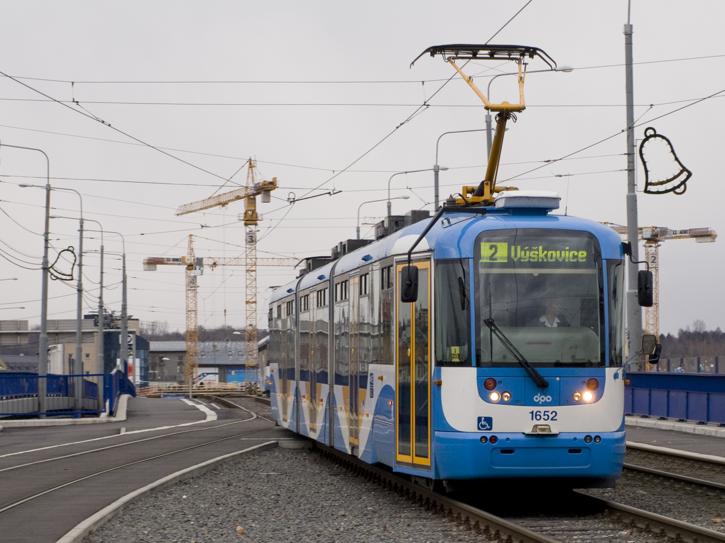 Vario LF3/2, square of the Republic, Ostrava